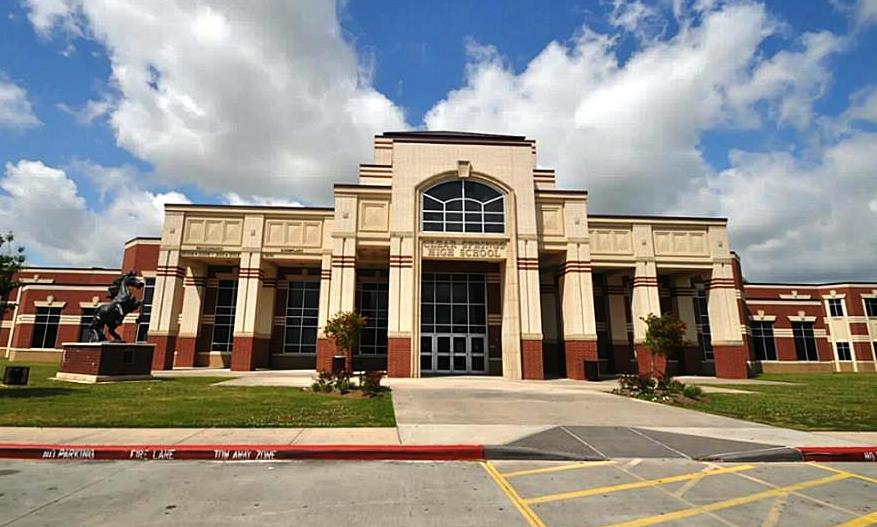 Photograph of the front entrance of Clear Springs High School , a public 6A high school located in League City, TX and a part of the Clear Creek Independent School District.